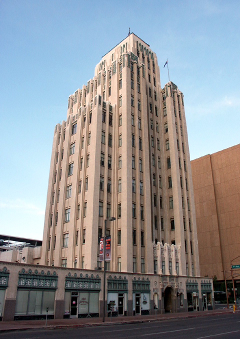 The Luhrs Tower — located in Downtown Phoenix, Arizona. The 1929 Art Deco building was designed by the architectural firm of Trost & Trost. Credits Photo by camerafiend.